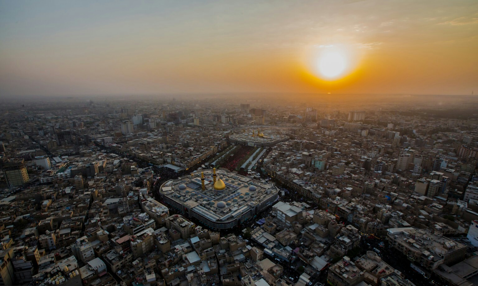 Karbala City in Iraq